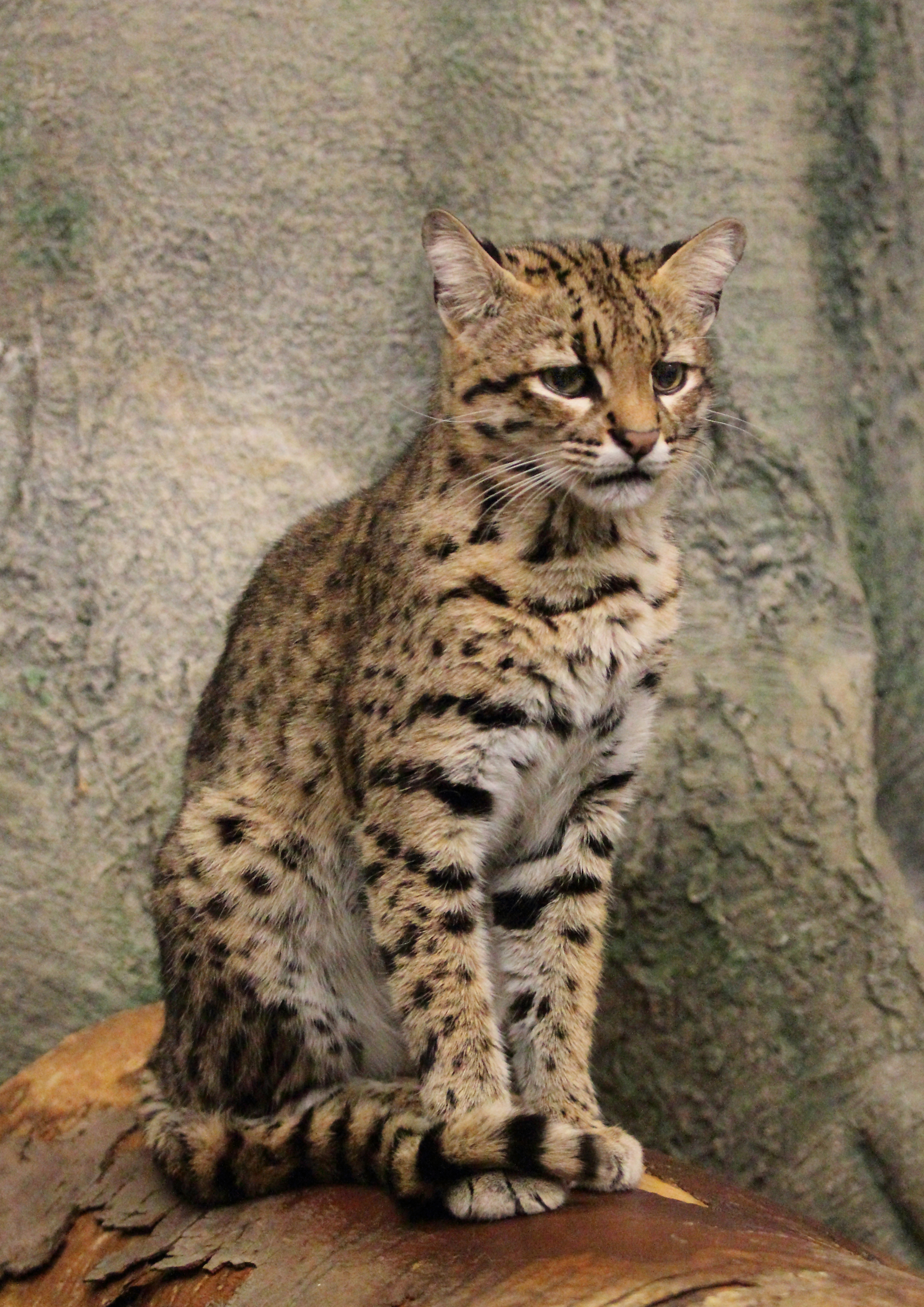 Geoffrey's cat - taken at the Cincinnati Zoo. Photo by Greg Hume